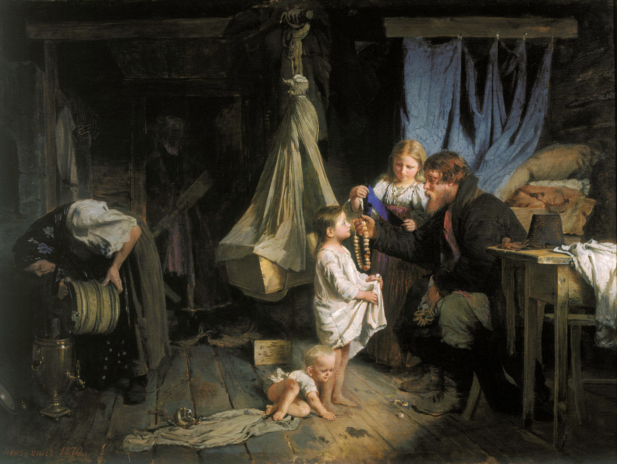 Alexey Korzukhin (1835-1894) Returning from the city